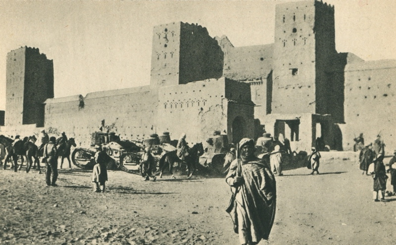 French army at Goulmima